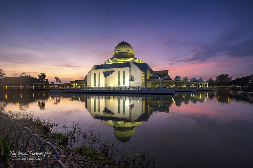 UTP mosque